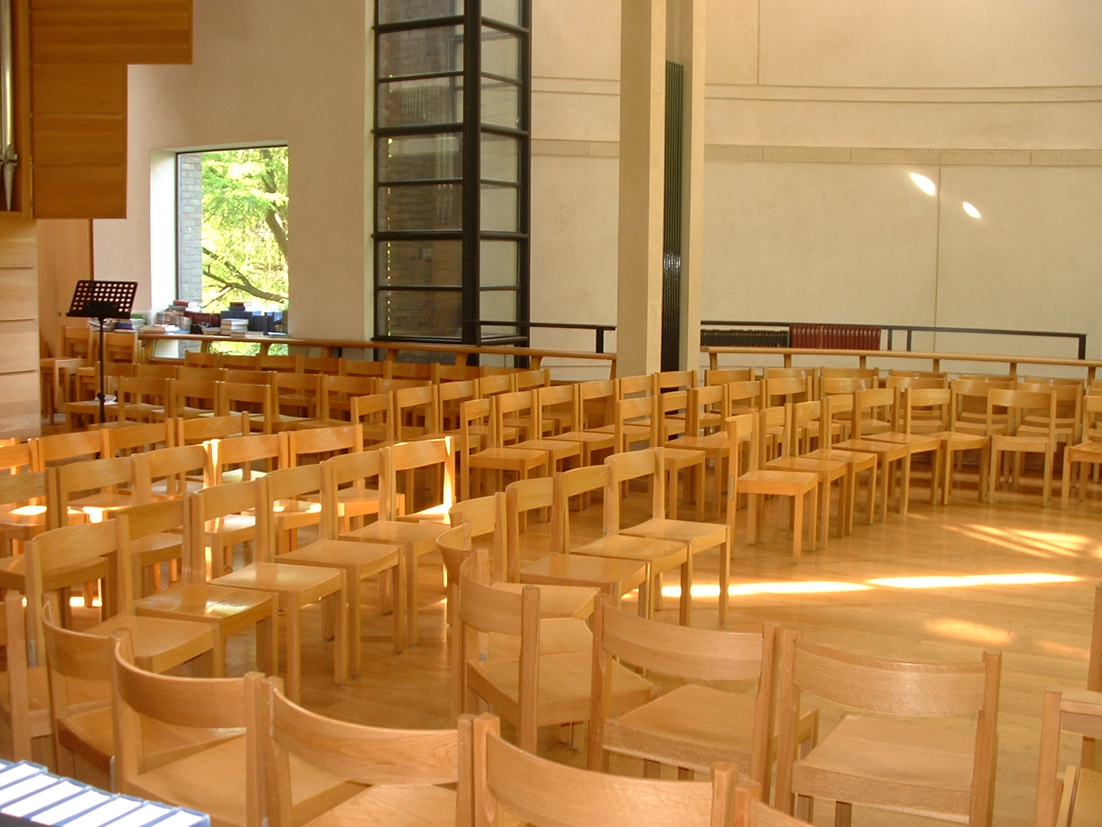 Taken by Satinder Singh Inside the Chapel (description from User:SS1981/Images/Fitzwilliam_College) The chapel of Fitzwilliam College, University of Cambridge (additional description by JackyR)